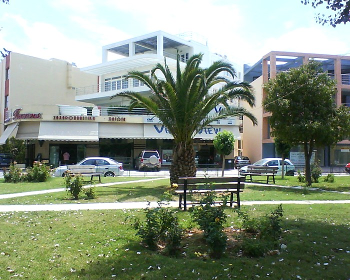 Ano Halandri